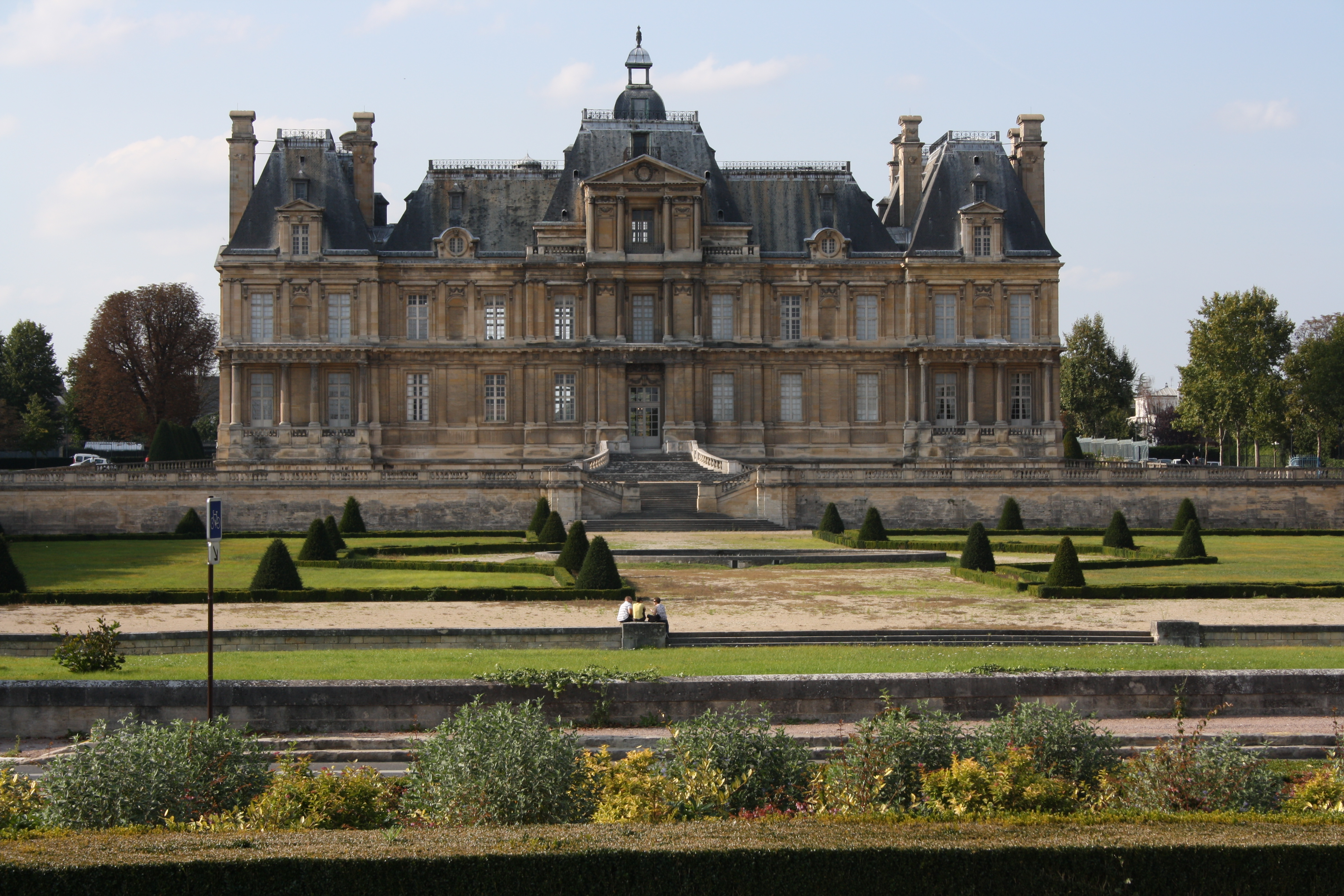 Maisons castle in Maisons-Laffitte, France.